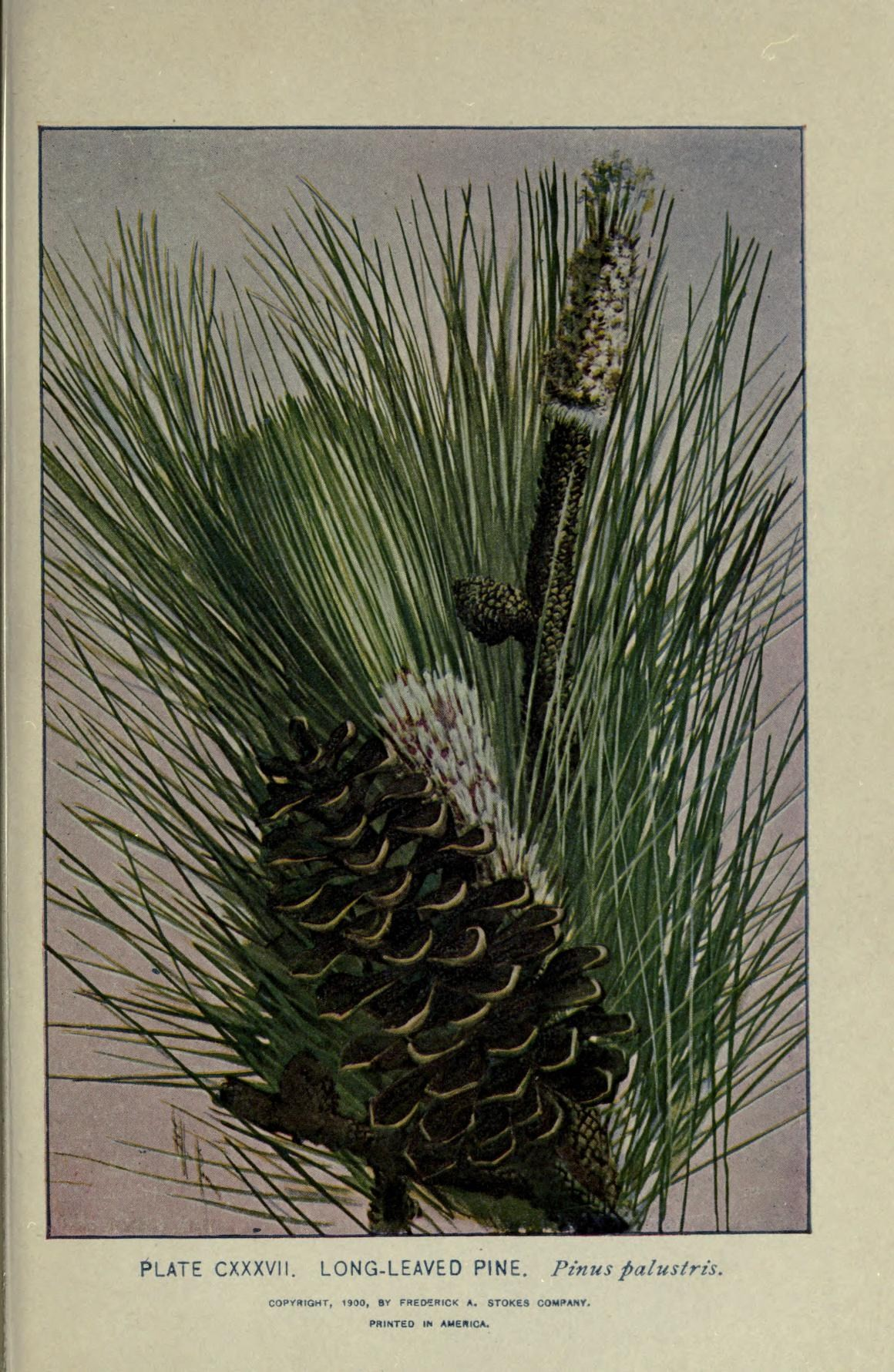 PLATE CXXXVII. LONG-LEAVED PINE. Pinus palustrts. COPYRIGHT, 1900, BY FREDERICK A. STOKES COMPANY. PRINTEO IN AMERICA.